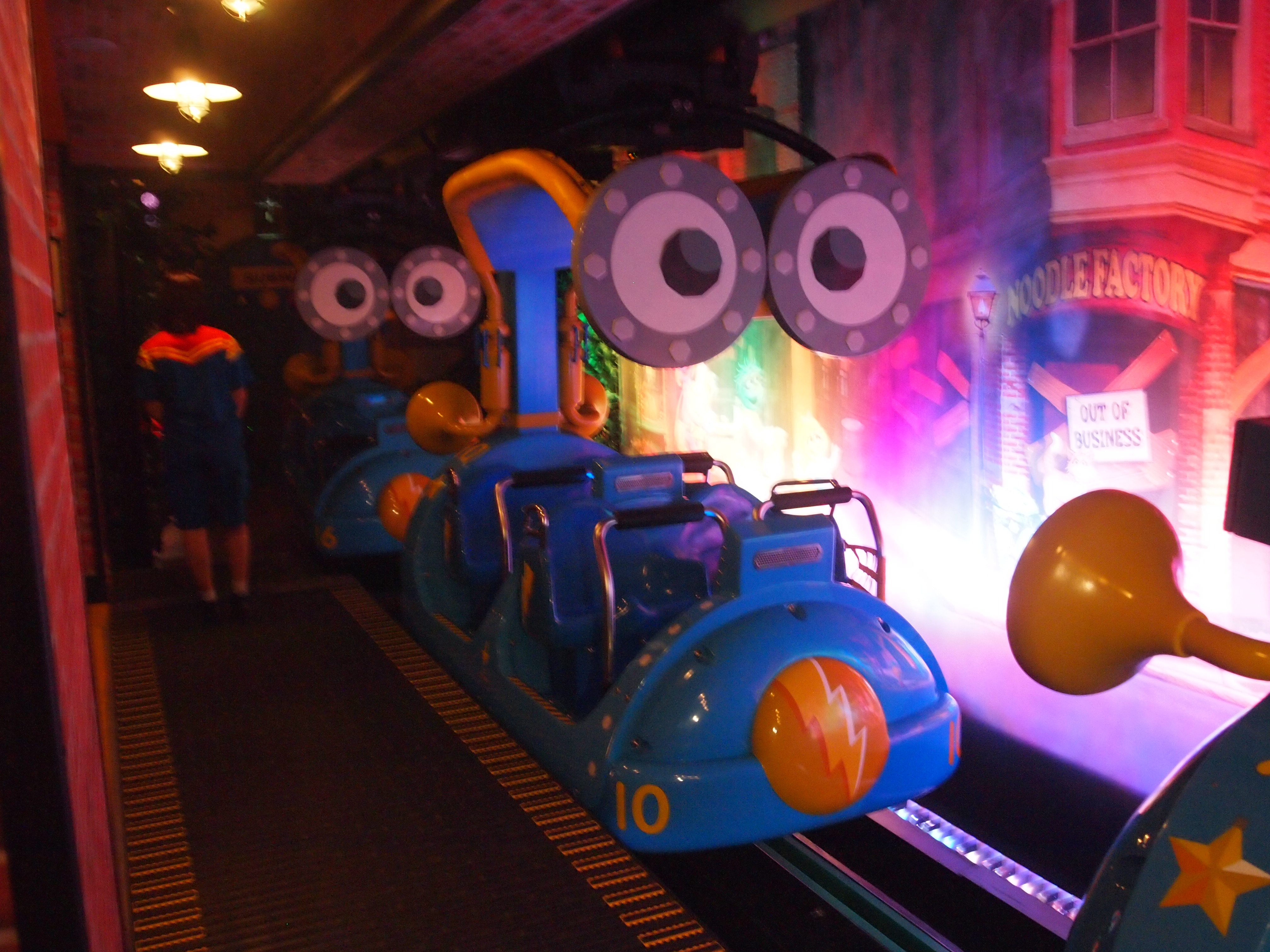 Launch of Sesame Street Spaghetti Space Chase